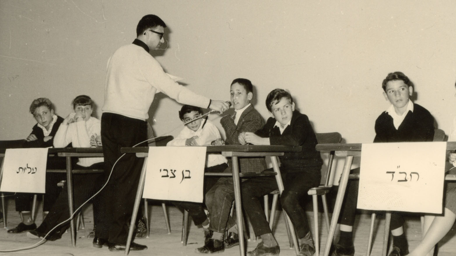 kiryat gat, Education in Israel